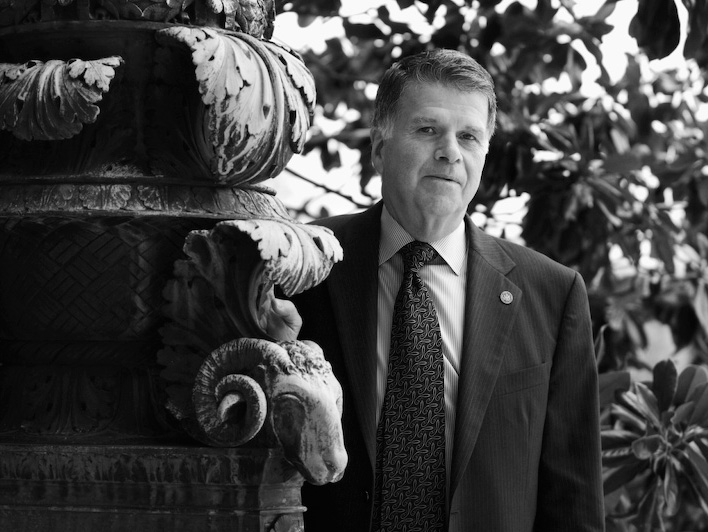 Official Portrait of Archivist of the United States, David Ferriero